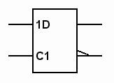 IEC symbol for a transparent (or D) latch (flip-flop).